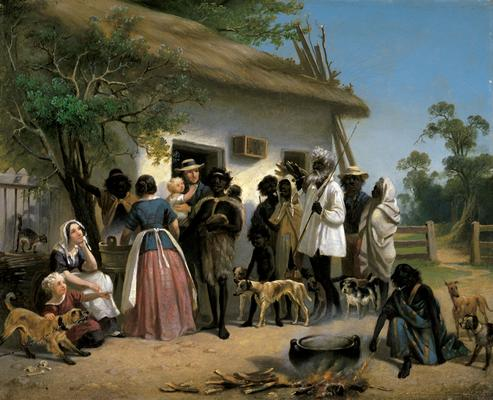 A scene in South Australia, oil on canvas, 25.7 x 31.8 cm, by Alexander Schramm